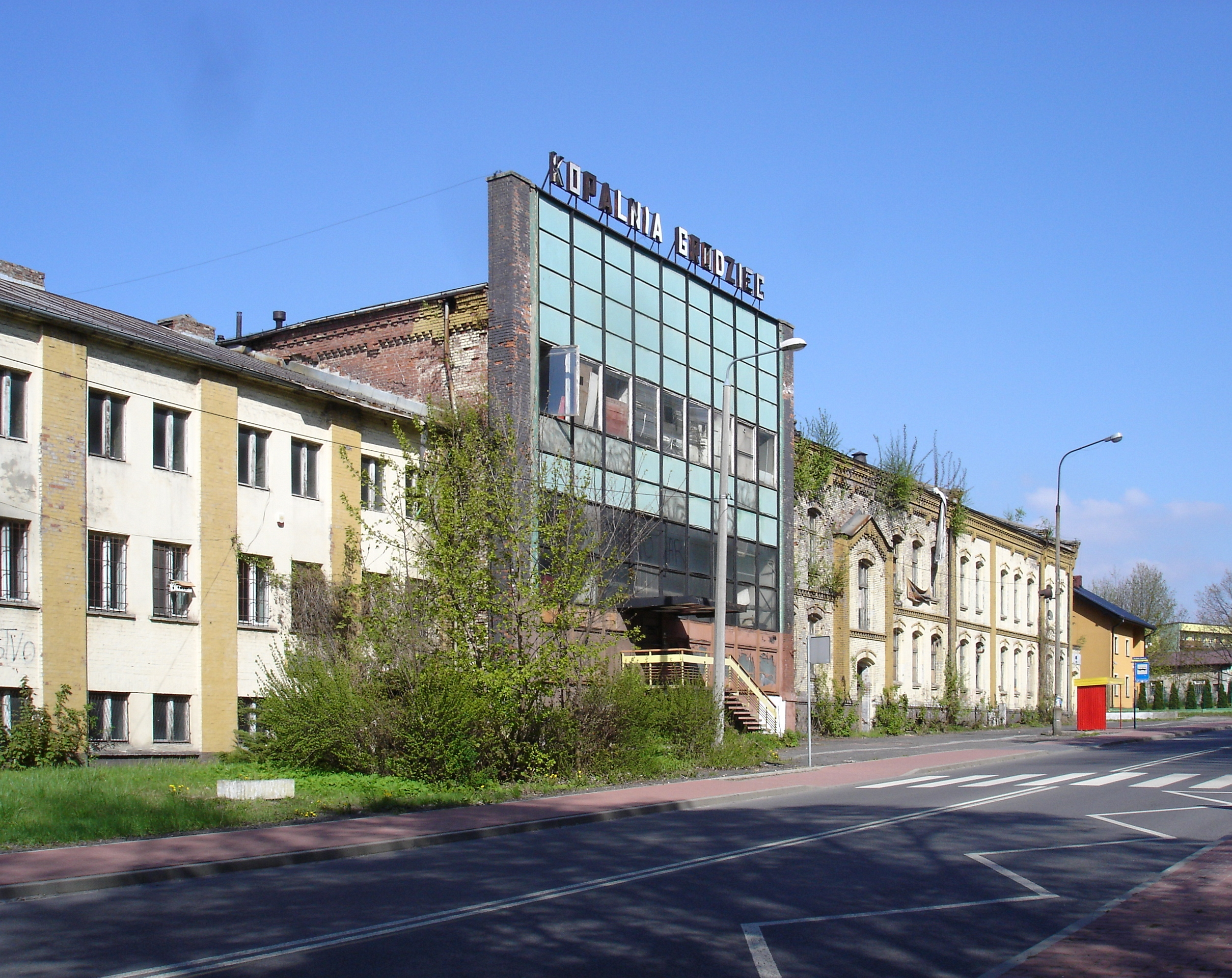 A front view of a main office building of former coal mine Grodziec in Będzin, Barlickiego street, Poland.